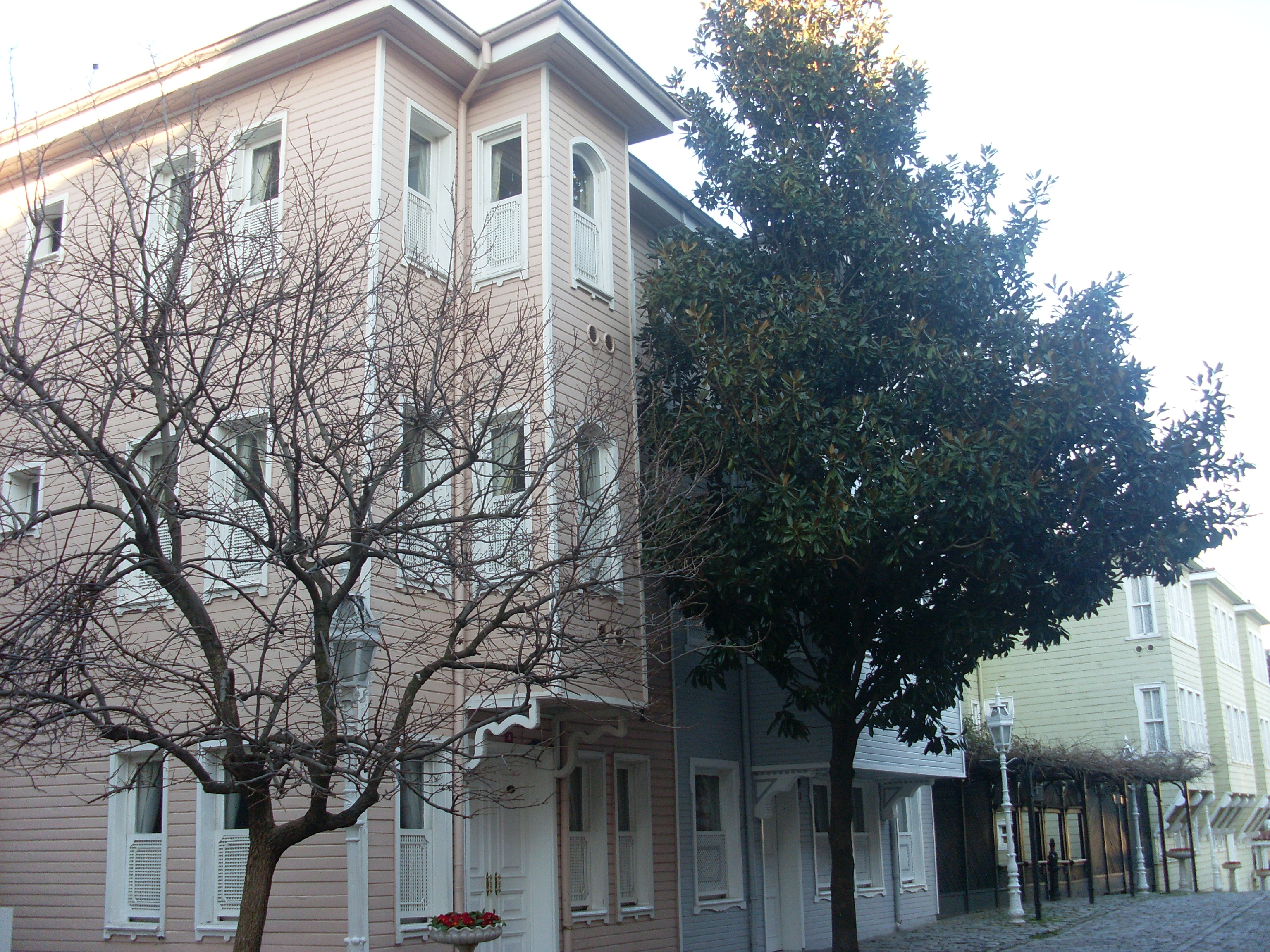 İstanbul - Soğukçeşme Sokağı r6 - Mart 2013